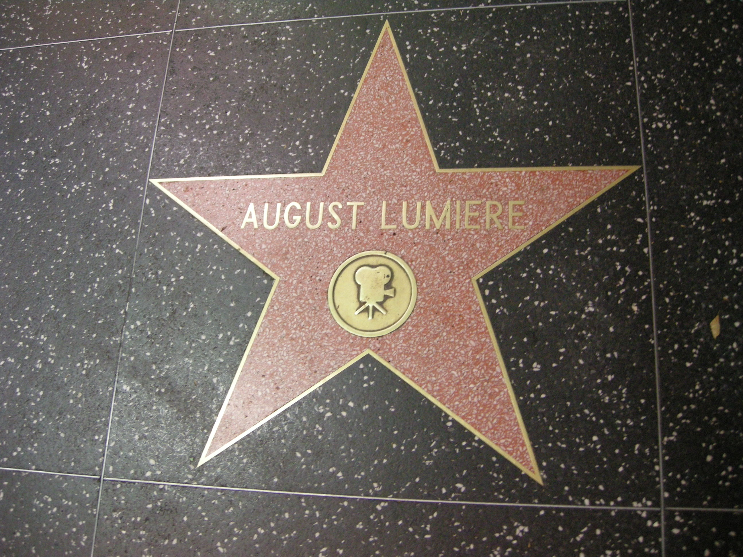 Walk of fame, august lumiere